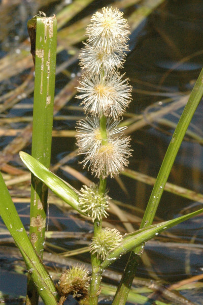 Picture taken in Commanster, Belgian High Ardennes . Species: Sparganium emersum